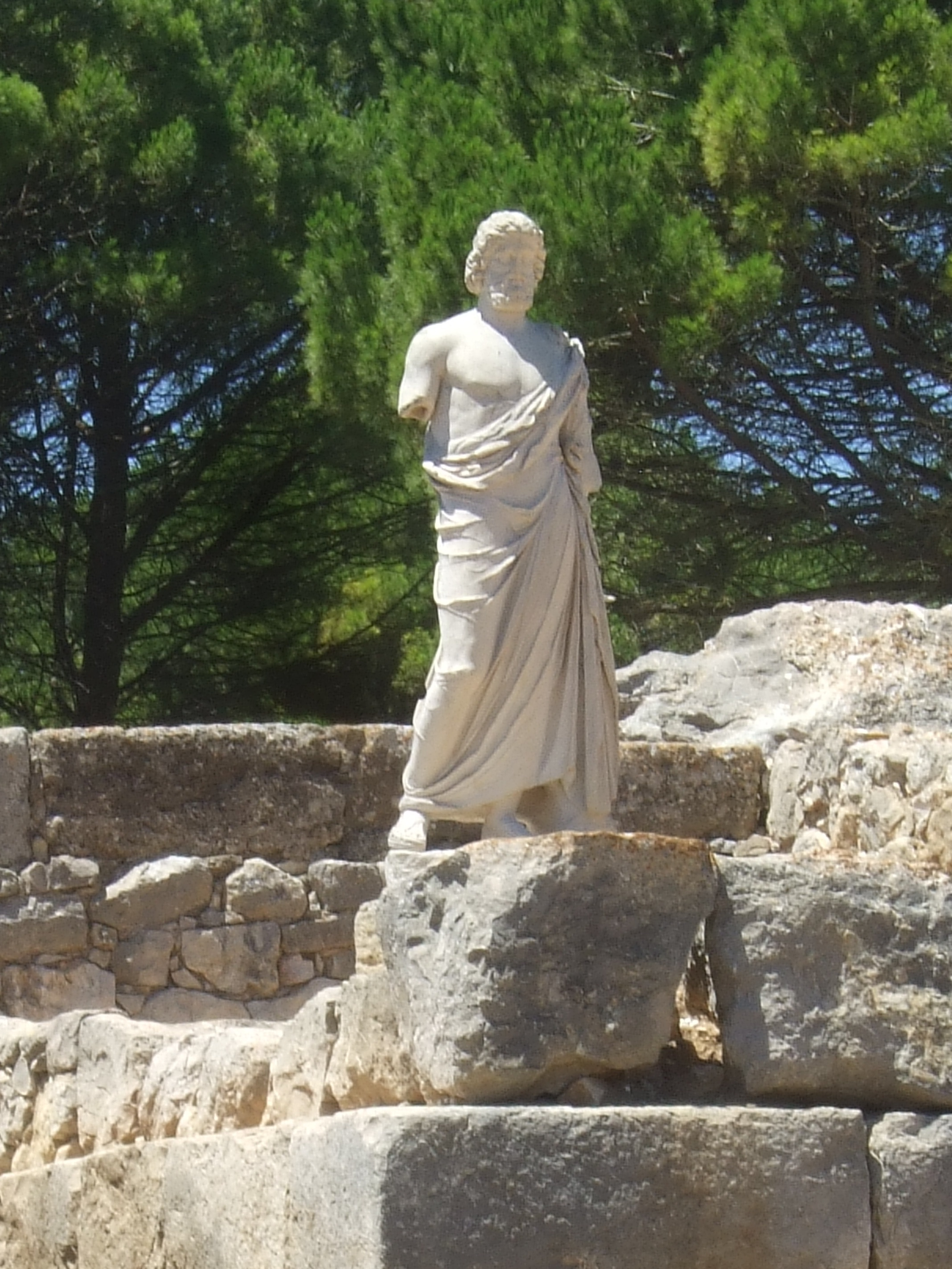 Statue of Asklepios in Empúries (Catalonia). By experts in ancient mitology, this is not probably a representation of Aesclepius. Formerly it has been suggested the name of Asclepius, but recently it seems to be a poor based name, because it has no rests of a staff or serpents in the excavation. This elements tipically ocurs in Aesculapius representations around the ancient world. It seem to be factible that it has been a representation of Agatodaimon. see Ca:Asclepi on his version of 5 jul. 2009.